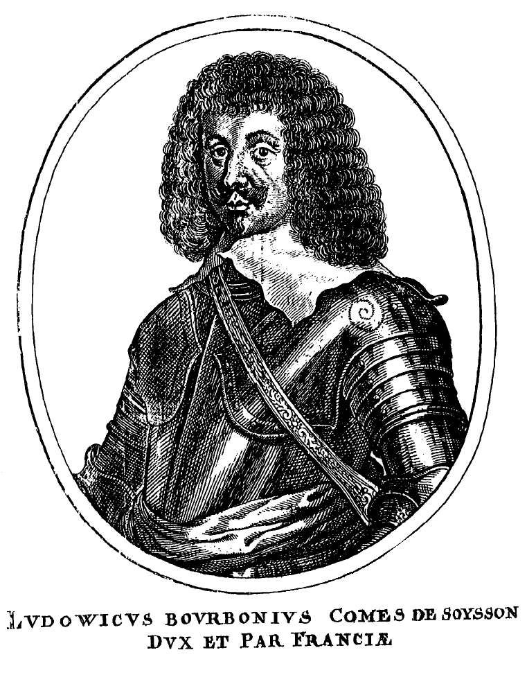 Portrait of Louis de Bourbon-Condé, count of Soisson (1604-1641